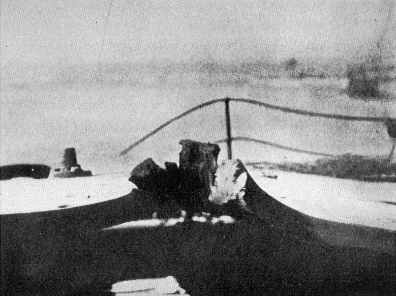 'Q' Turret, Lion: thick front armour-plate pierced at junction with roof-plate (photograph taken after the plate had been removed and placed on deck) Photo: from The Fighting at Jutland Note that the turret roof is generally described as having been blown off by the propellant explosion, rather than lifted off or "removed and placed on deck". It's also doubtful if the ship was equipped for such a heavy lift unaided.